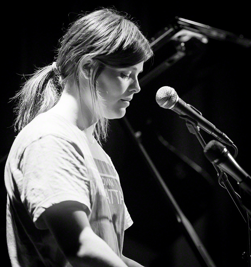 Anja Lauvdal performs with Ferdigsnakka: Broen og Moskus at the stage of Nasjonal Jazzscene Victoria. The concert was part of the Oslo Jazz Festival in Norway and took place on 15. August 2016. Lineup:Anja Lauvdal (keyboard)Fredrik Luhr Dietrichson (double bass)Hans Hulbækmo (drums)Heida Karine Johannesdottir (tuba)Lars Ove Fossheim (guitar)Lars Saabye Christensen (spoken words)Kjartan Fløgstad (spoken words)Vigdis Hjorth (spoken words)Geir Gulliksen (spoken words)Ingvild Schade (spoken words)